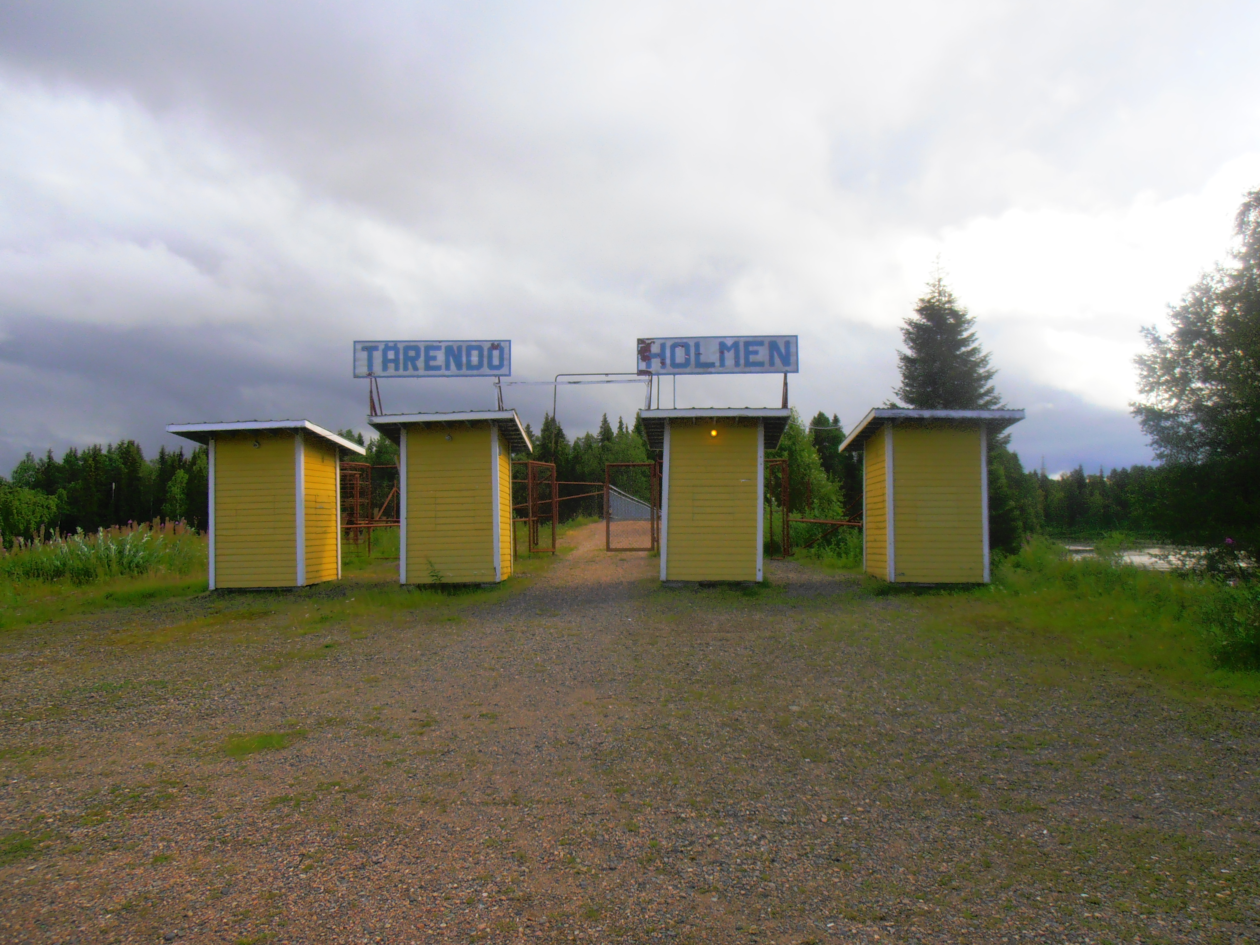 Entrance of the Tärendö island